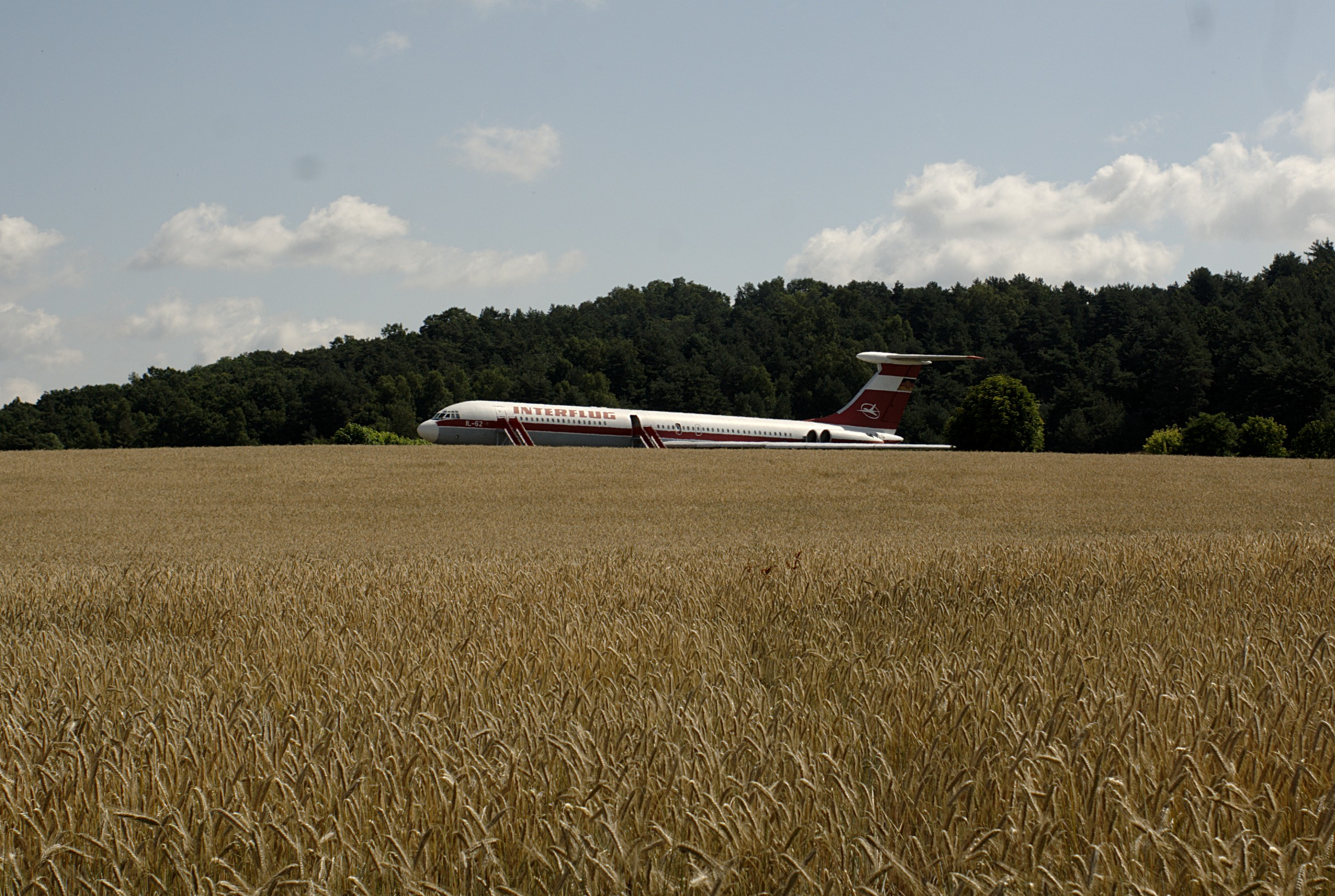 Ilyushin Il-62. The plane now serves as a museum in Gollenberg, Germany. It was landed there in 1989 on a runway of 900 metres. In memory of Otto Lilienthal's wife, the plane was christened Lady Agnes.